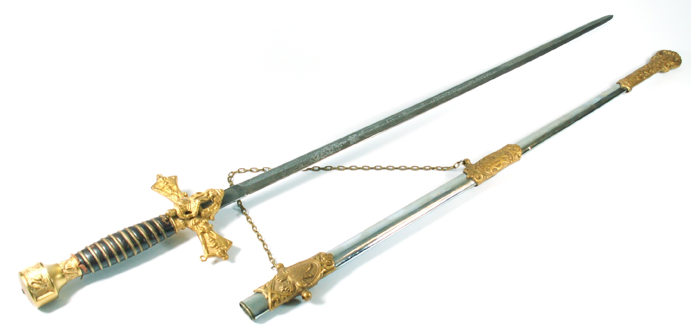 Digital photograph image: 1900 c1900 Sword, Odd Fellows, Toronto, Canada.jpg Konica Minolta Z5, manual, macro, studio lights, sheet styrene backdrop, white point editing.